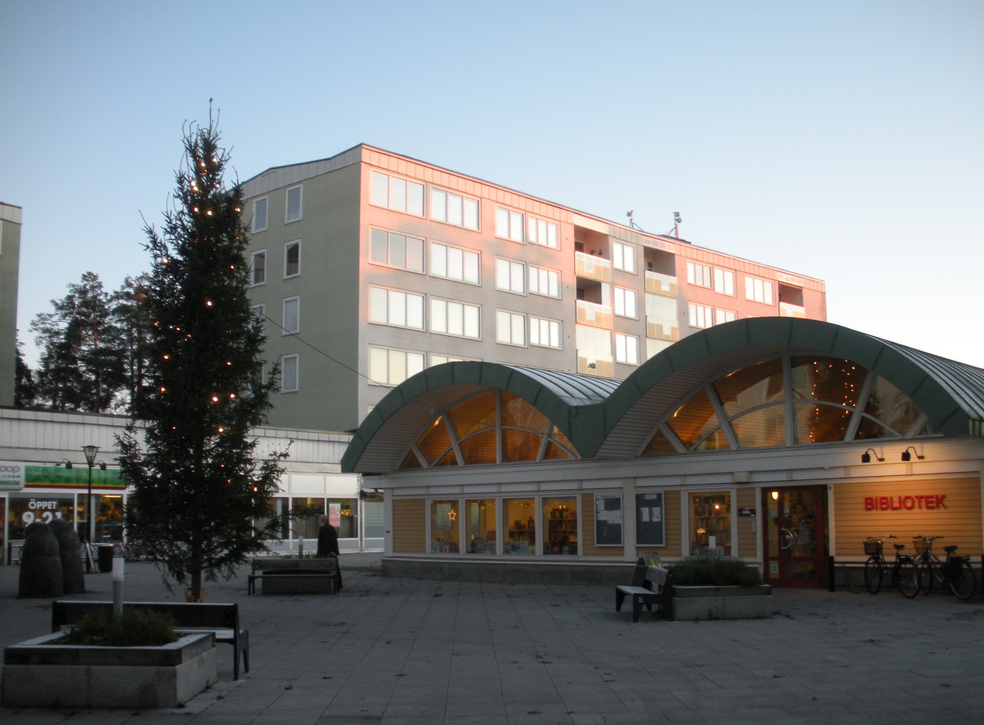 A Library in centrum of Bergshamra in Solna near Stockholm, Sweden